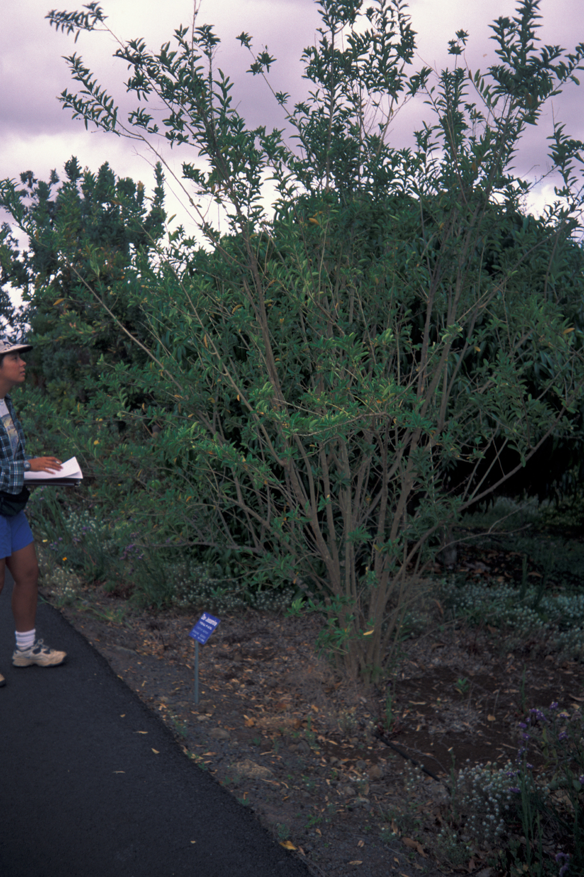 Cestrum diurnum (habit). Location: Maui, Enchanting Floral Gardens of Kula